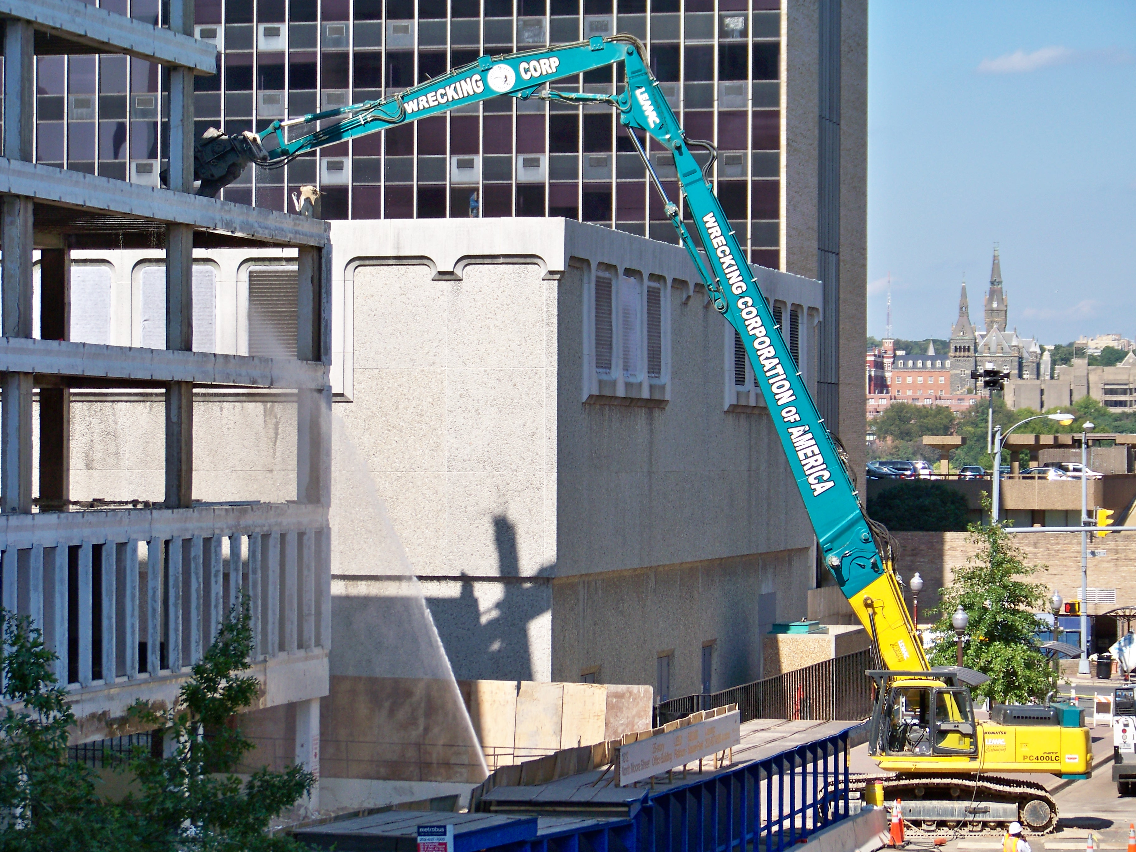 A long reach excavator is used in the demolition of 1815 North Fort Myer Drive in the Rosslyn neighborhood of Arlington, Virginia.